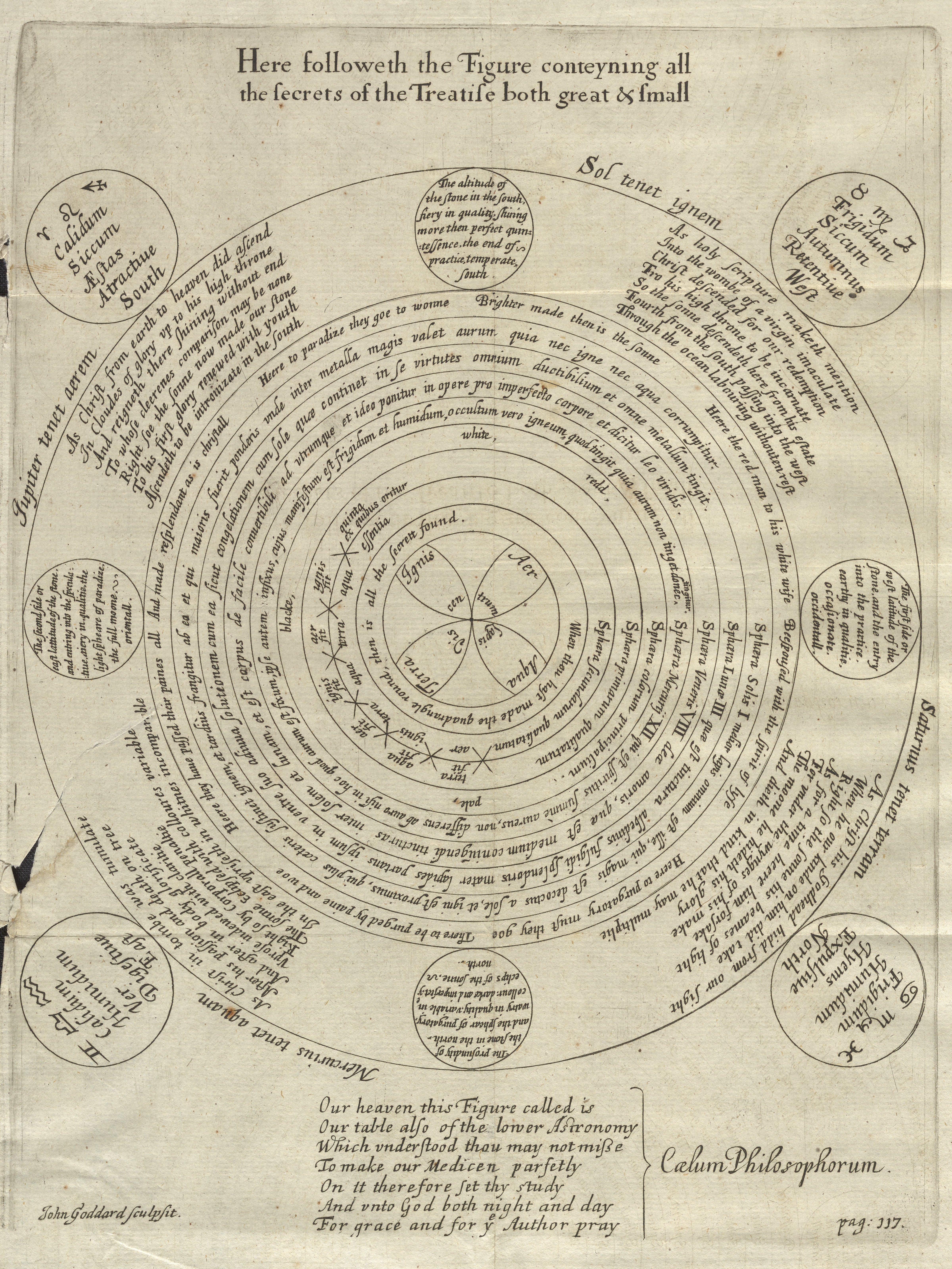 Ashmole, Elias. “Here Followeth the Figure Conteyning [Containing] All the Secrets of the Treatise Both Great & Small.” An engraved diagram from George Ripley's The Compound of Alchymie. Known as Ripley's Wheel, the drawing depicts concentric planetary spheres along with his alchemical recipes. From Theatrum chemicum Britannicum : containing severall poeticall pieces of our famous English philosophers, who have written the hermetique mysteries in their owne ancient language. The first part / faithfully collected into one volume, with annotations thereon, by Elias Ashmole. London : Printed by J. Grismond for Nath: Brooke, at the angel in Cornhill, 1652.